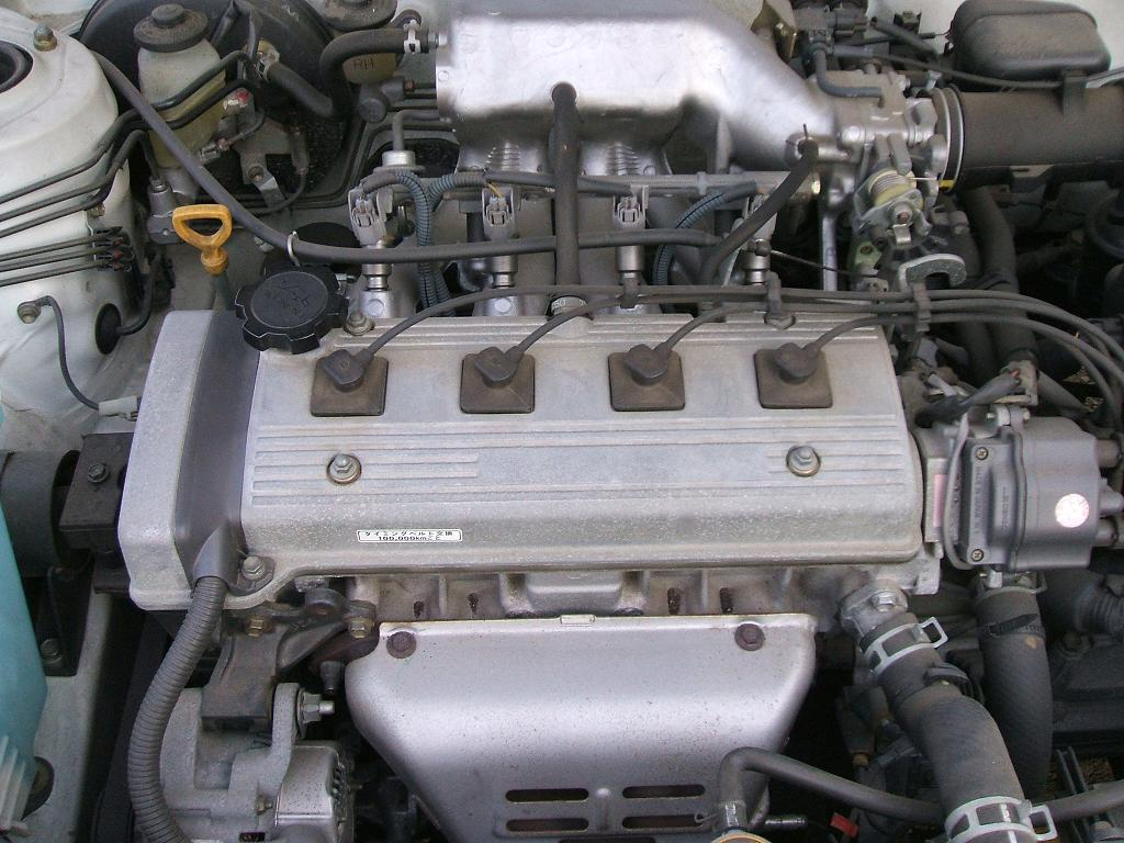 Toyota 5A-FE engine for Toyota Corolla.